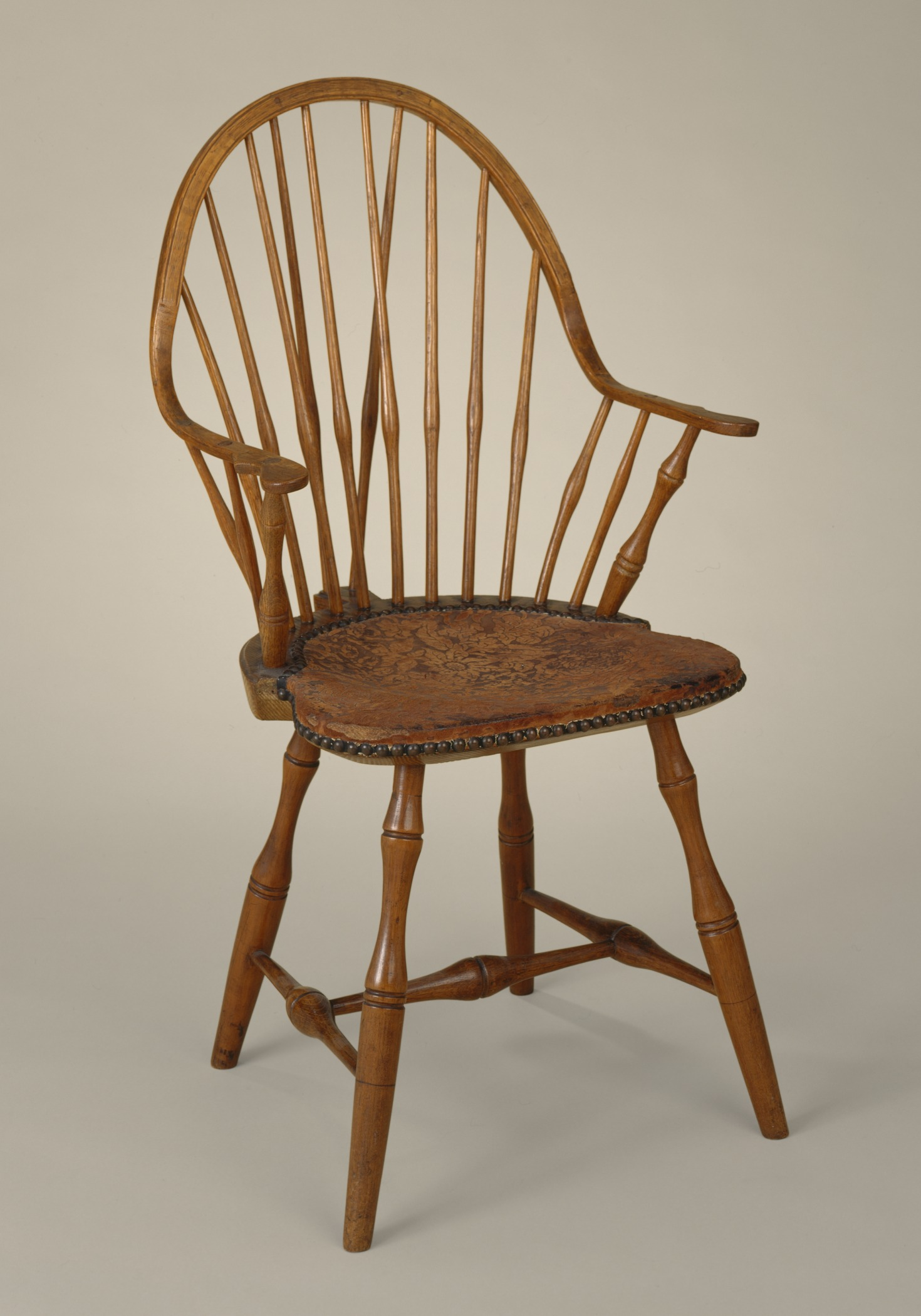 United States, 1790-1820 Furnishings; Furniture Hickory, oak, maple, chestnut, leather Col. and Mrs. George J. Denis Fund (54.80) Decorative Arts and Design